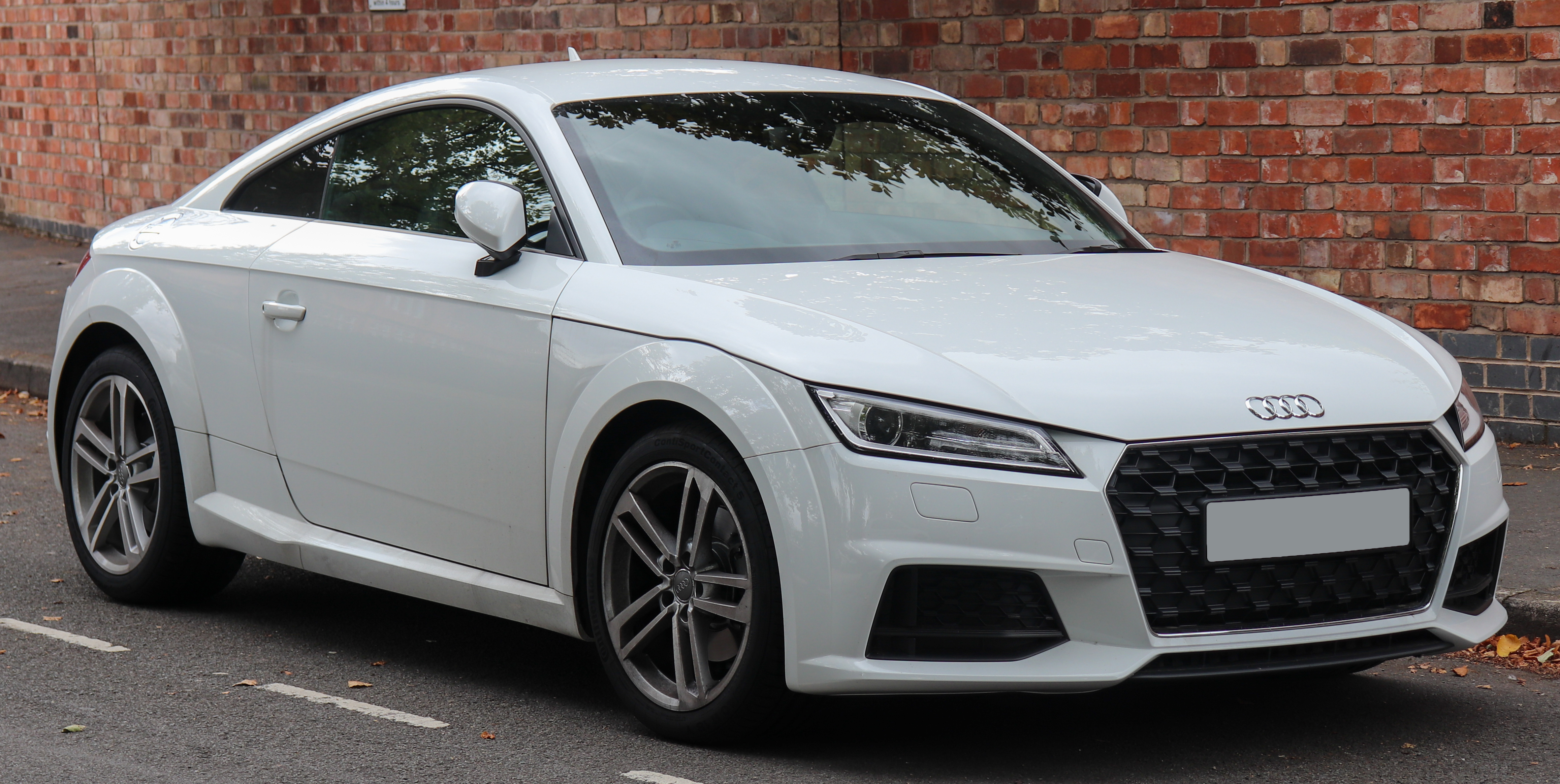 2019 Audi TT Sport 40 TFSi S-A 2.0 Front Taken in Leamington Spa